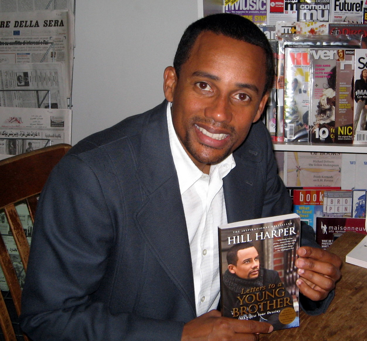 Hill Harper at Left Bank Books in St. Louis signing his book, Letters to a Young Brother.